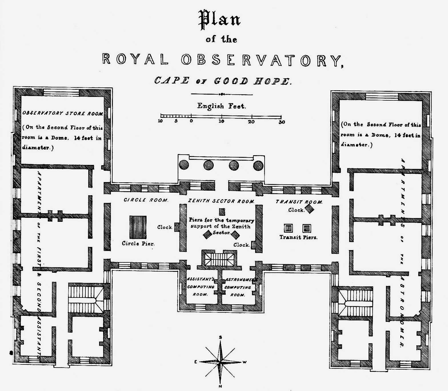 Plan of the main building of the Royal Observatory, Cape of Good Hope, drawn by C. P. Smyth